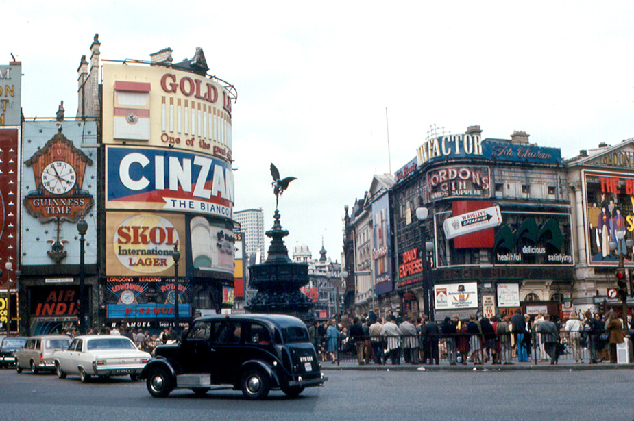 Piccadilly Circus in 1968, including advertising signs, traffic, tourists and Eros. From original description:- The advertising signs in 1968, when traffic still went around Piccadilly Circus. A good view of a London "black cab." The Statue of Eros still has the place of honor at the center of Piccadilly Circus. It is at the top of a memorial fountain to the 7th Earl of Shaftsbury (1893), who was famous as a social reformer. The fountain and statue were moved to a corner of the area when Piccadilly Circus was rebuilt in the late 1980s.